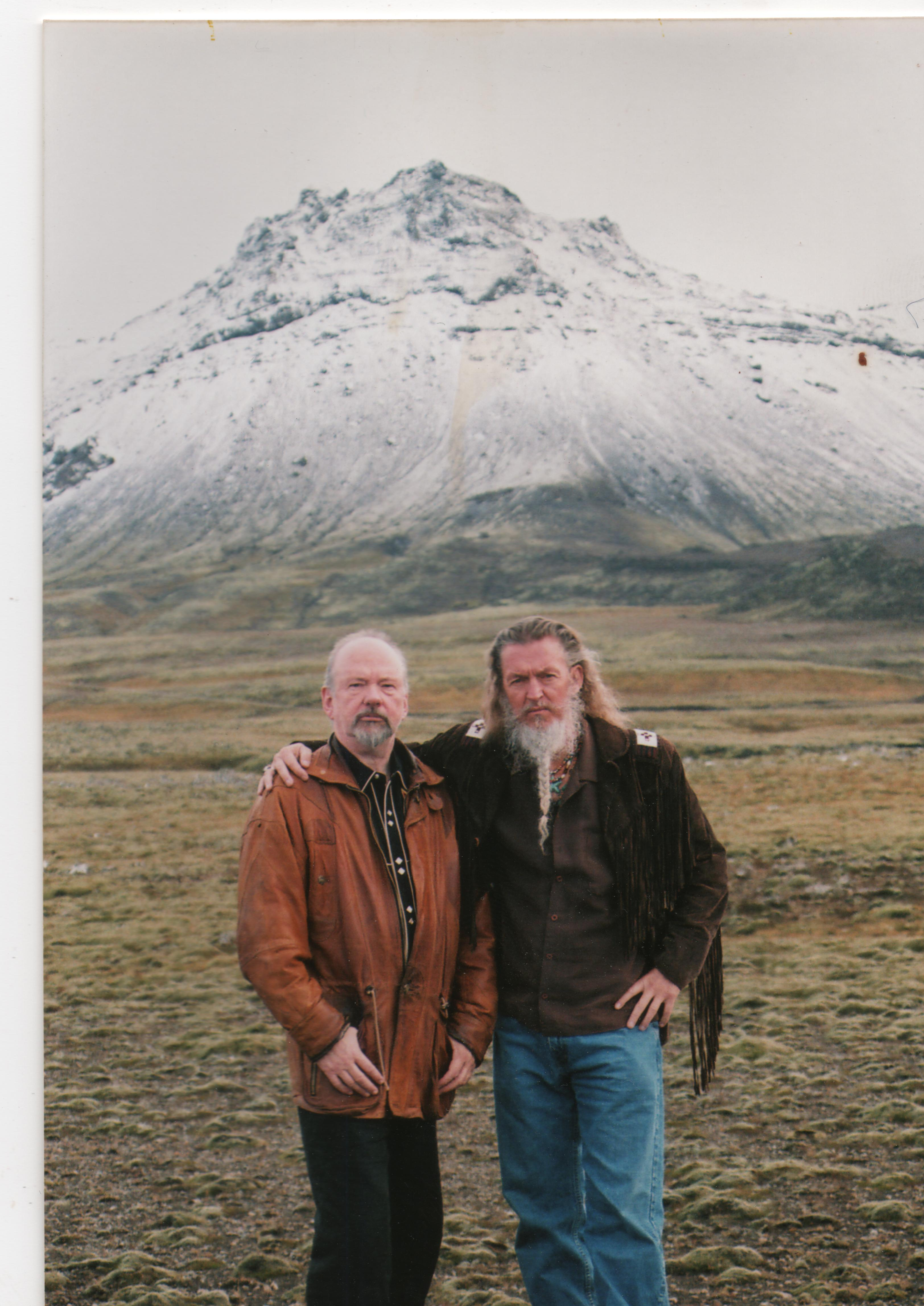 Photo of Ron Whitehead (right) in front of a mountain